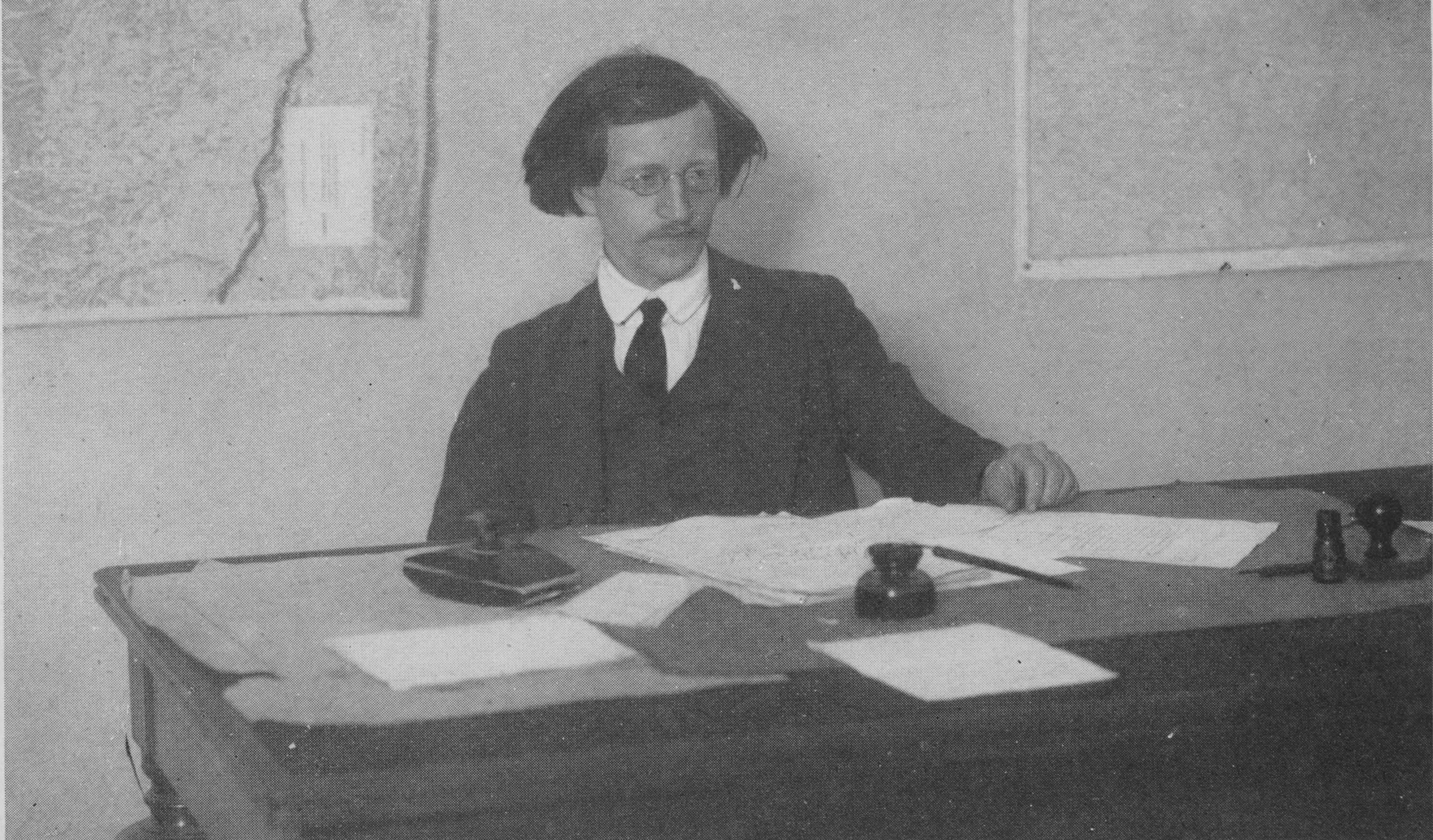 Vladimir Alexandrovich Antonov-Ovseyenko, Bolshevik politician.